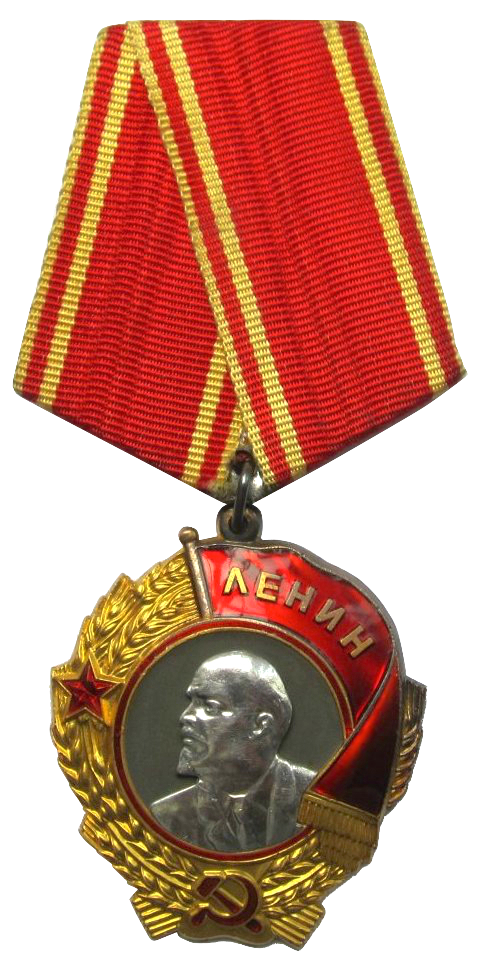 Order of Lenin png version, cropped from File:Kiselev ord.JPG.